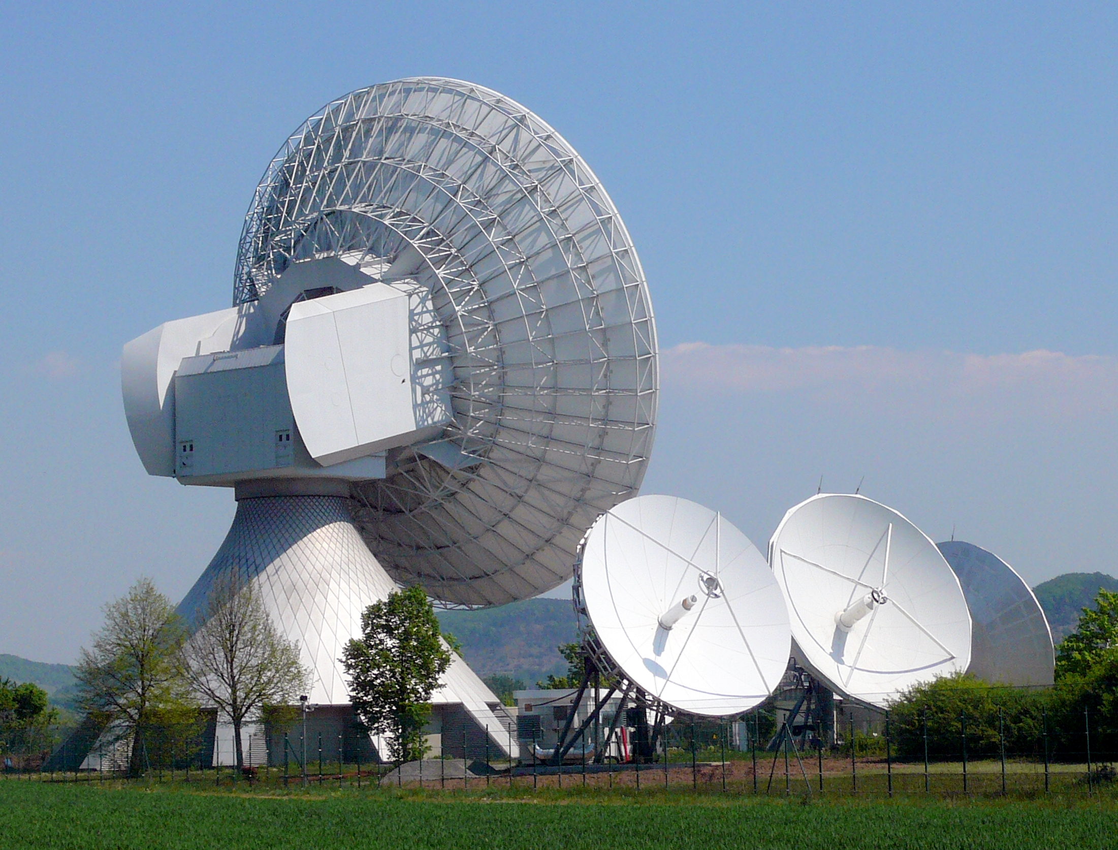 Satellite ground station Fuchsstadt, Germany, aerialfield one